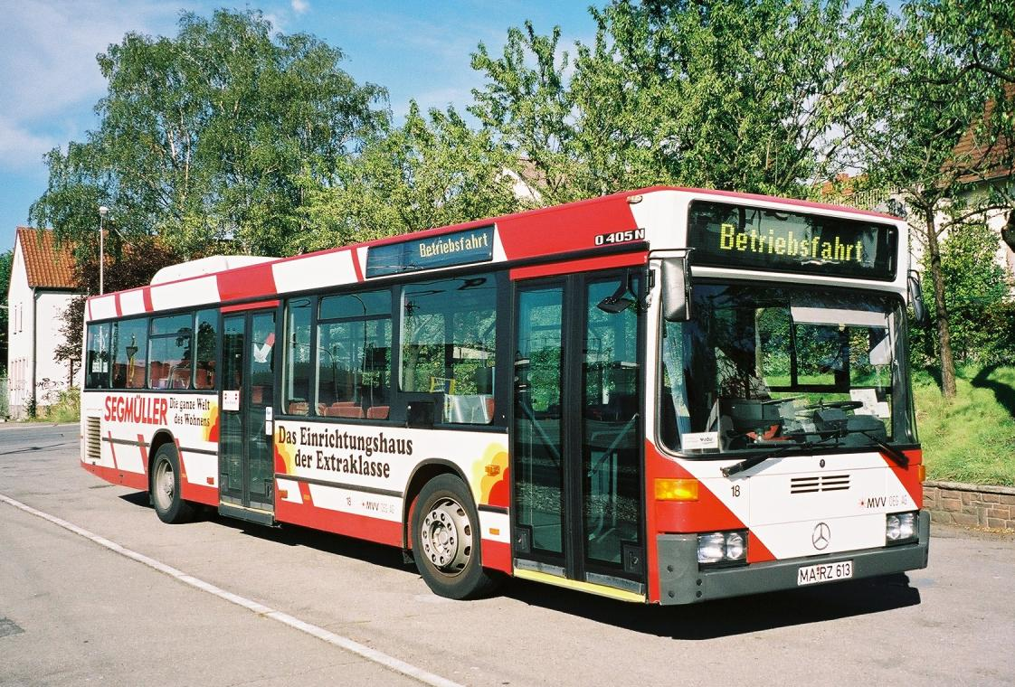 Mercedes-Benz O 405 N2 owned by MVV OEG AG in Weinheim an der Bergstraße, Germany